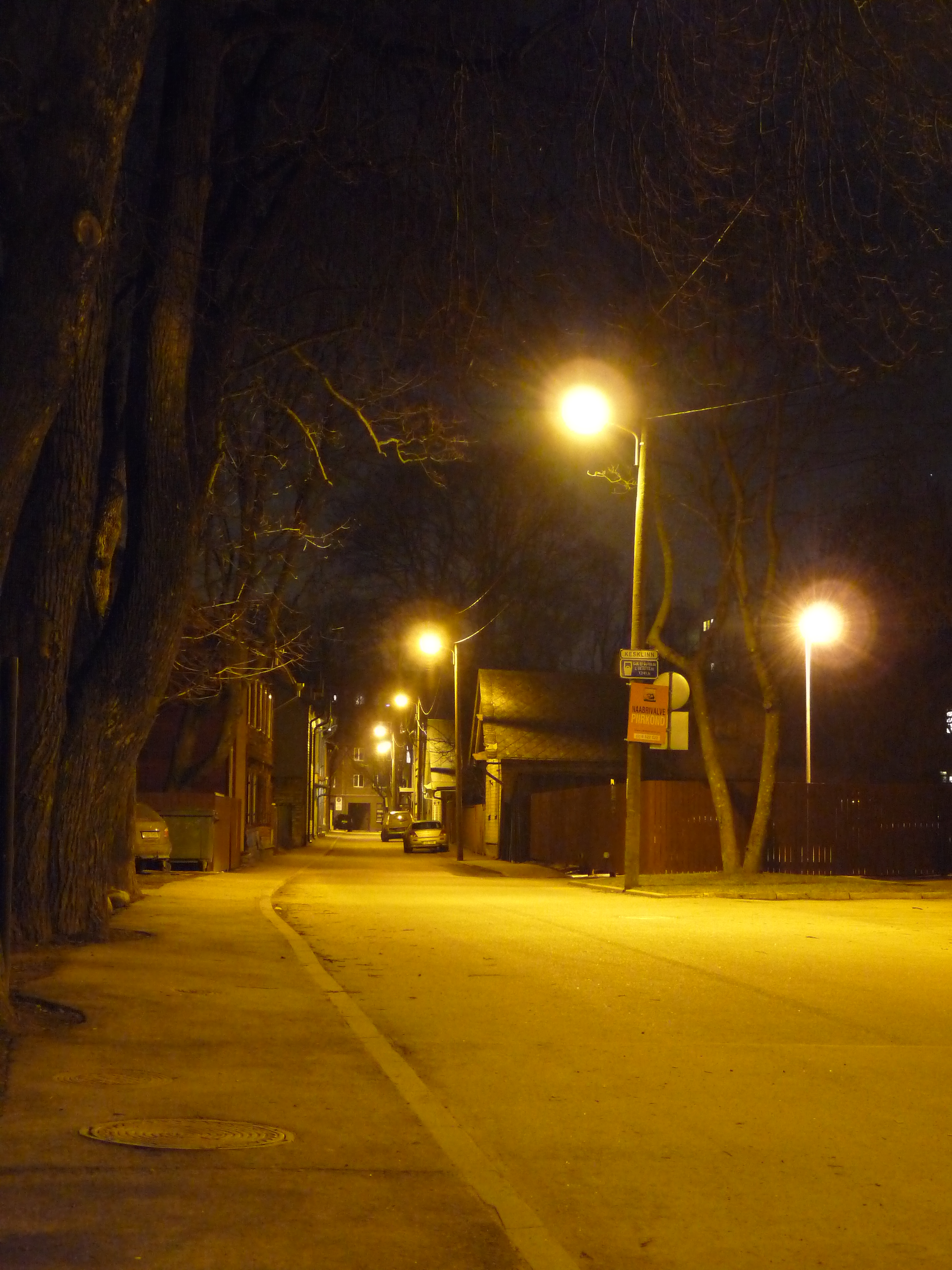 Loode street in Tallinn, Estonia